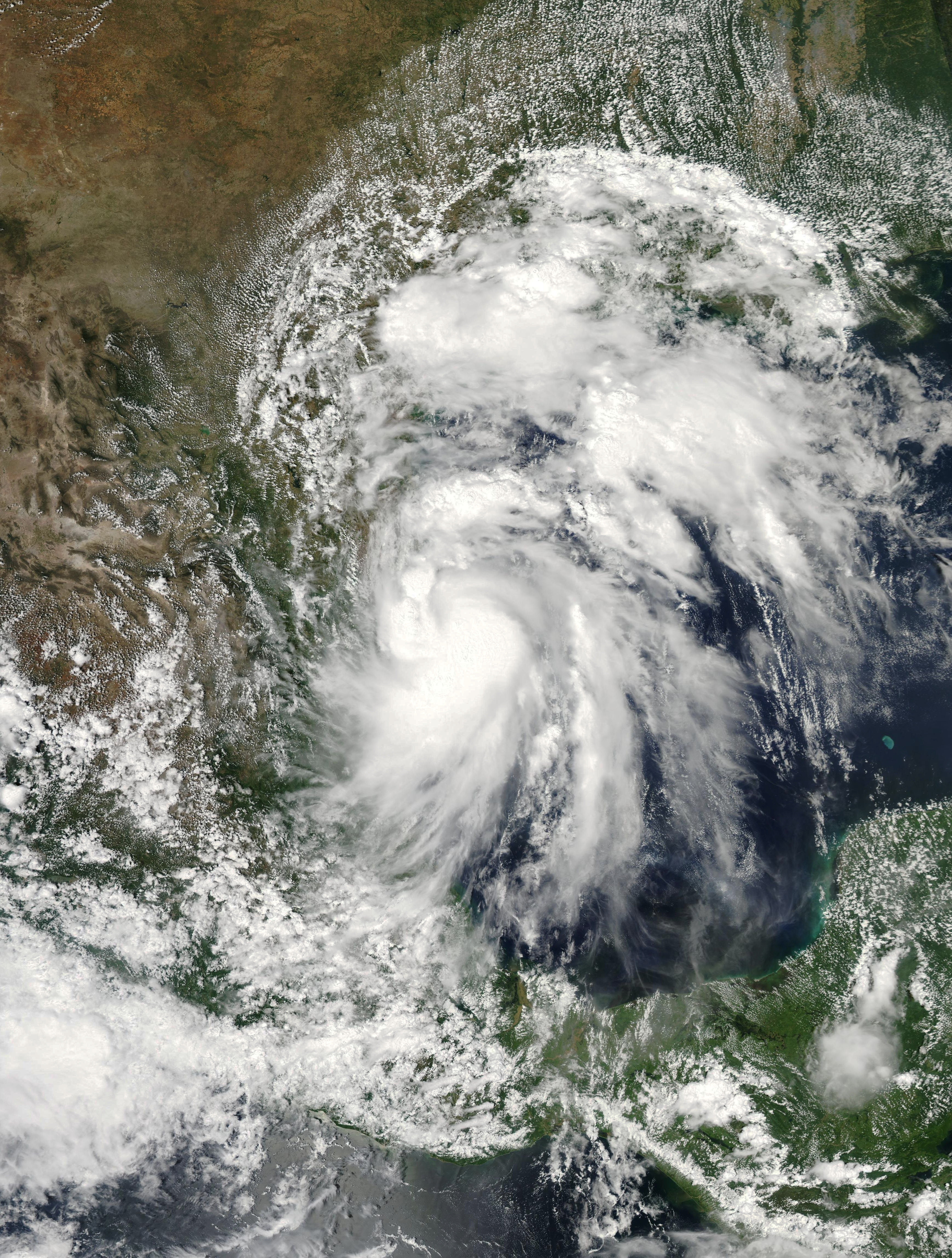 Tropical Storm Hermine near peak intensity off the coast of Mexico on September 6, 2010